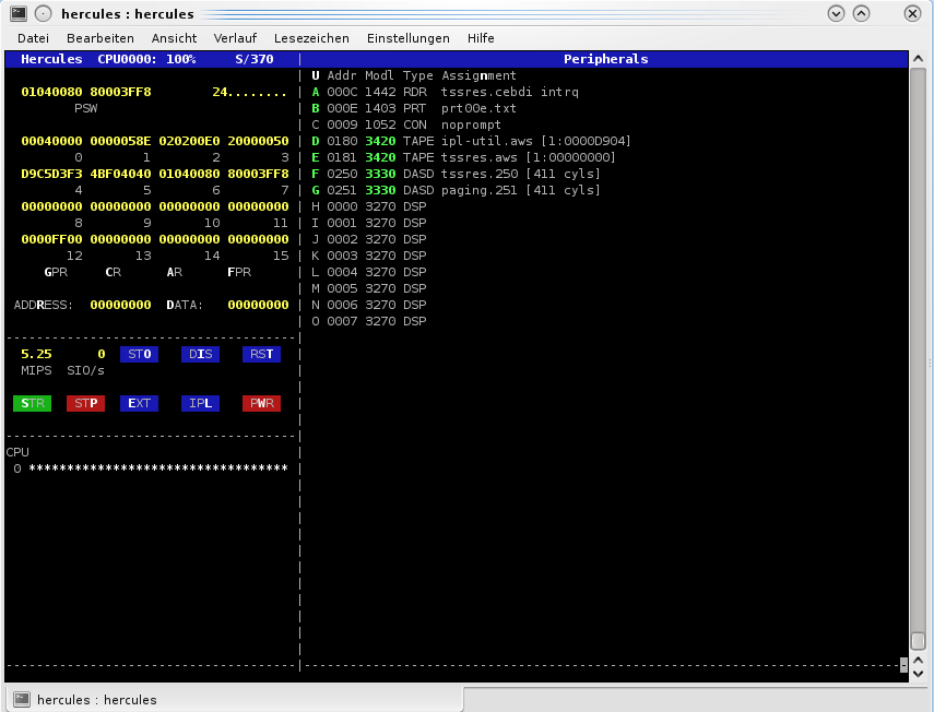 Screenshot of emulator Hercules (QPL licence) running in a window in Ubuntu showing GUI of mainframe operating system (OS/360 and compatibles). On the right are the virtual AWS-tapes, DASD volumes and the standard peripherals. CPU running.